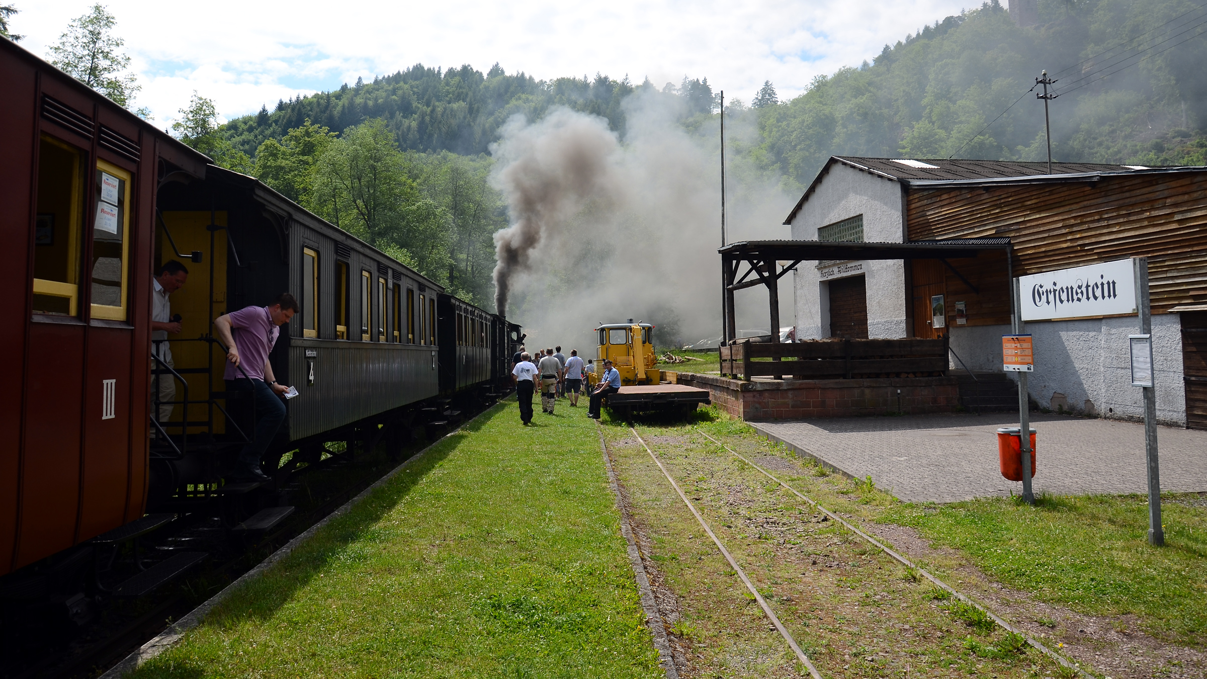 Kuckucksbähnel